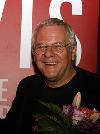 Austrian film director Hubert Sielecki at VIS Vienna Independent Shorts 2009 in Vienna.